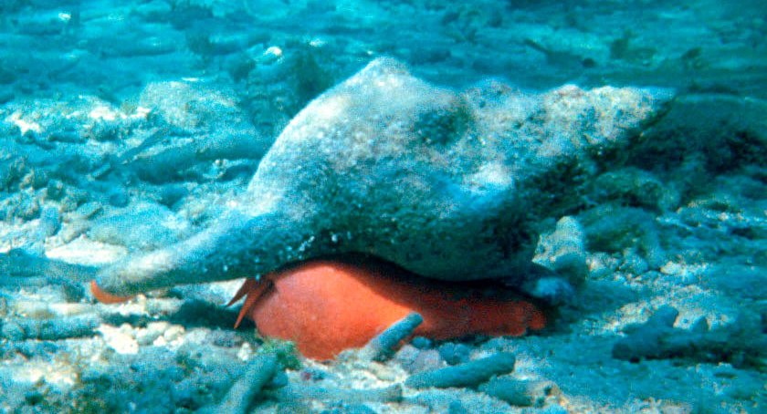 crop of file in file name